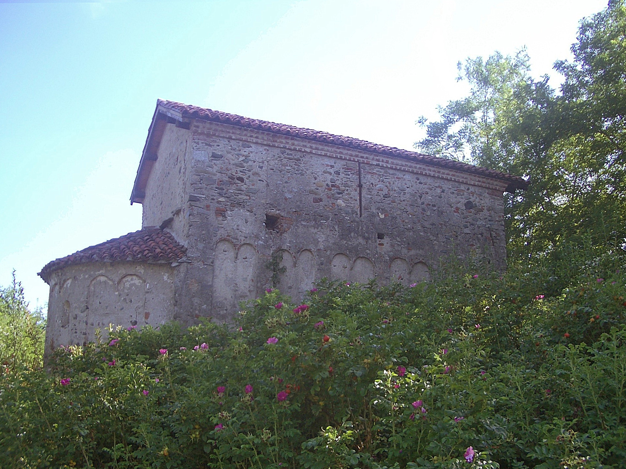 Scarmagno church, in Romanesque architecture style built at the end of the 10th century. Dedidated to St. Eusebio.